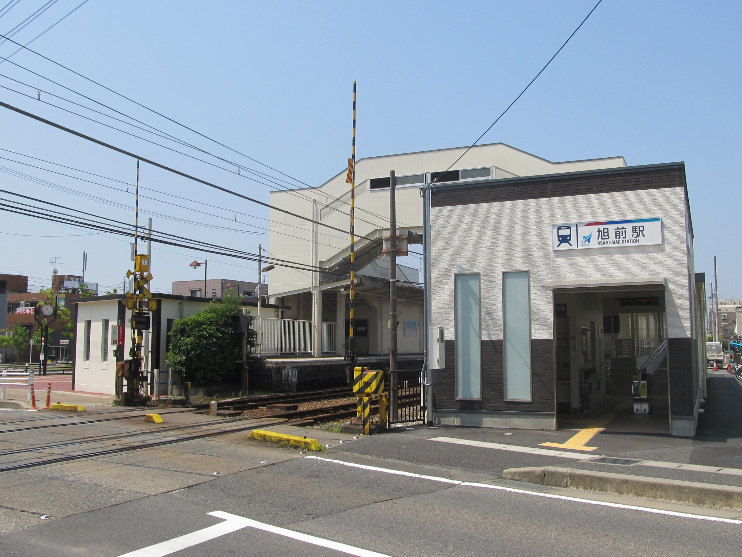 Nagoya Railroad Seto Line Asahi-mae Station North Gate.